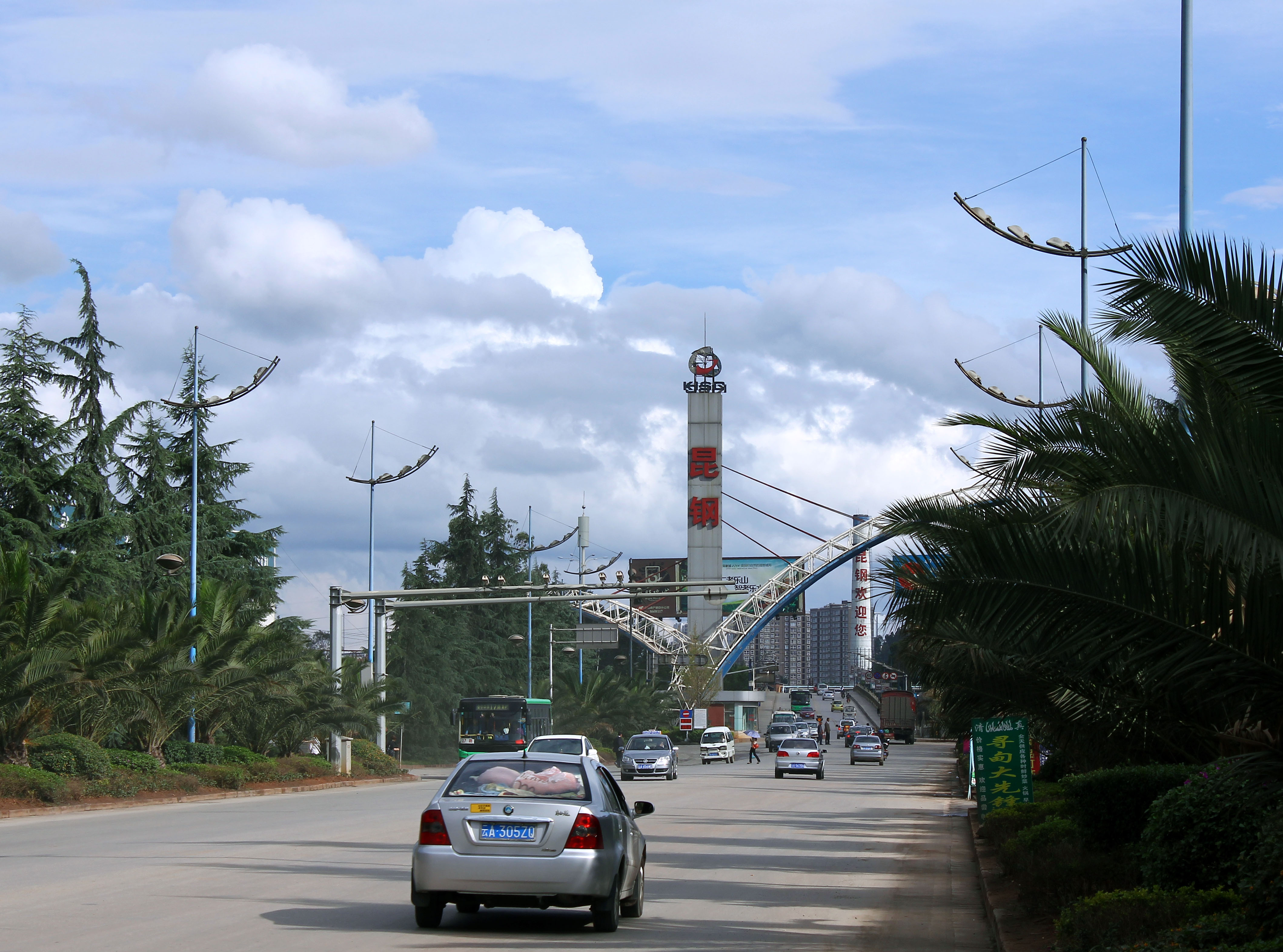 The main gate of Kunming Iron & Steel Co. Ltd, Anning City, Yunnan Province, China.